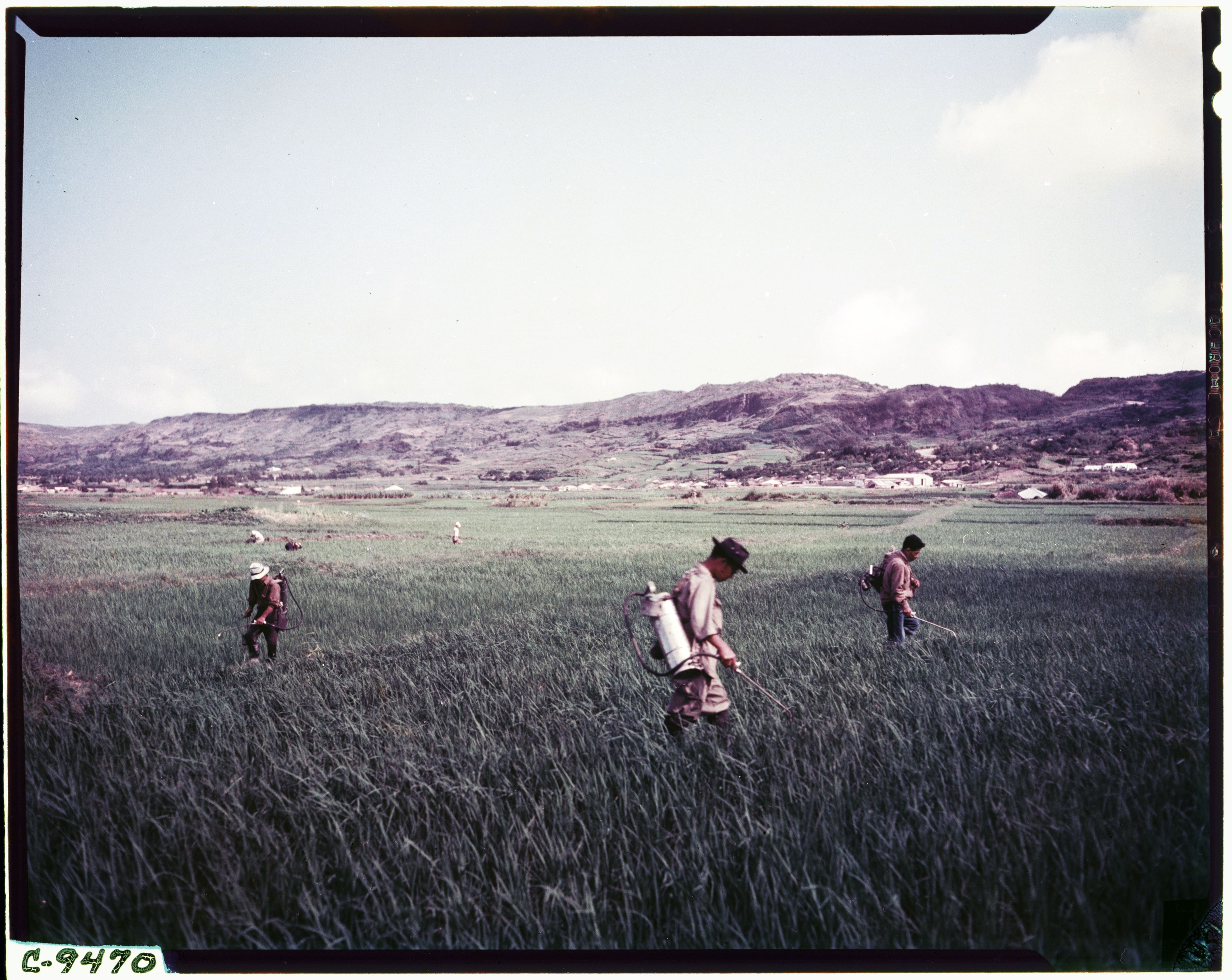 17-38-1 Okinawan laborers sponsored by Aid from the United States Civil Administration of the Ryukyu Islands, spray insecticides on rice paddy. 対琉球米国民政援助の沖縄人労働者、水田に殺虫剤を散布している